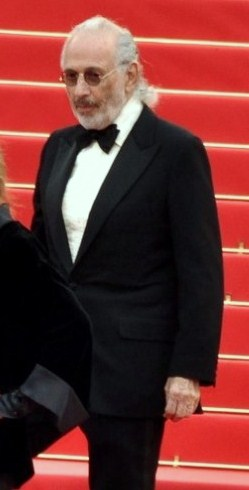 Jerry Schatzberg.